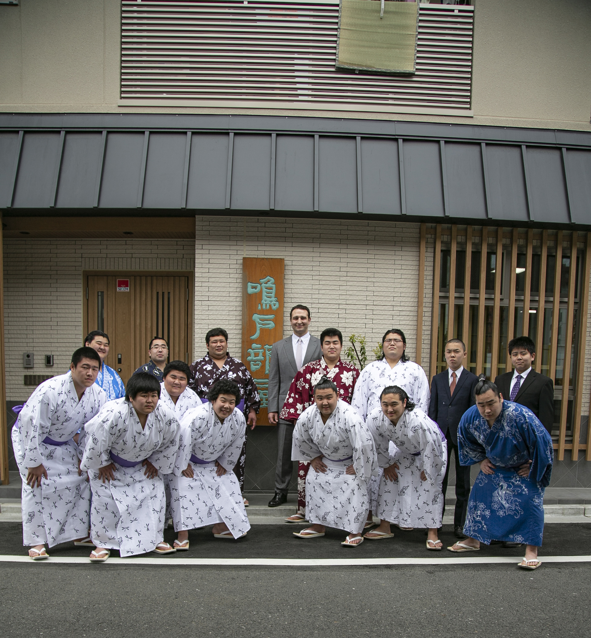 Group photo of sumo wrestlers of Naruto stable with Naruto elder Andō Karoyan (Kotoōshū Katsunori).